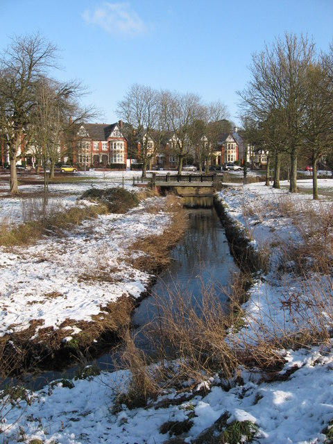 Roath Brook in Winter